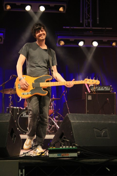 Josh Fauver (1978-2018) was the bassist for the band Deerhunter between 2004 and 2012. Pictured playing a set at Matt Groening's 2010 ATP festival in Minehead.